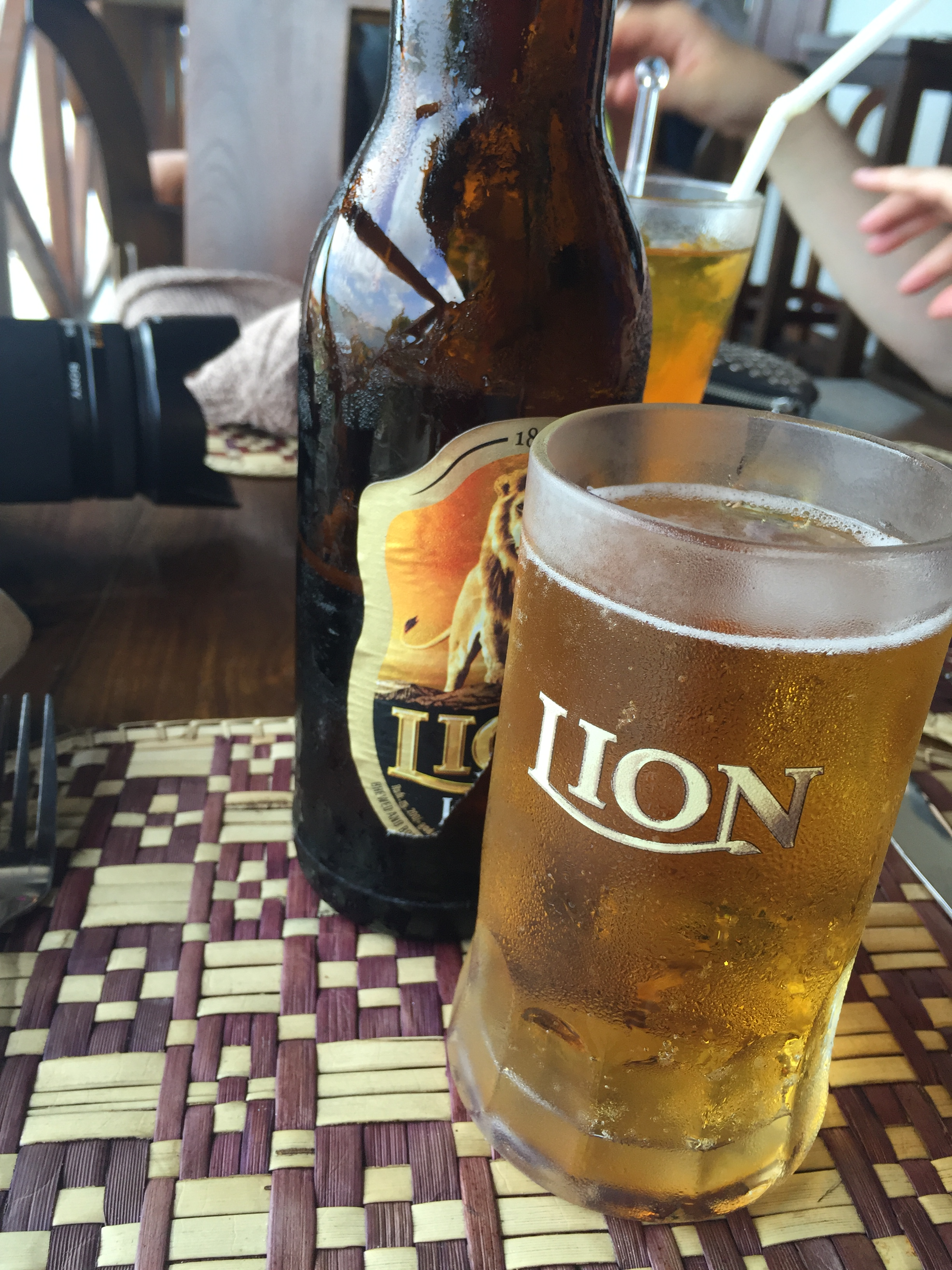 Glass & bottle of Lion Lager (Sri Lanka)